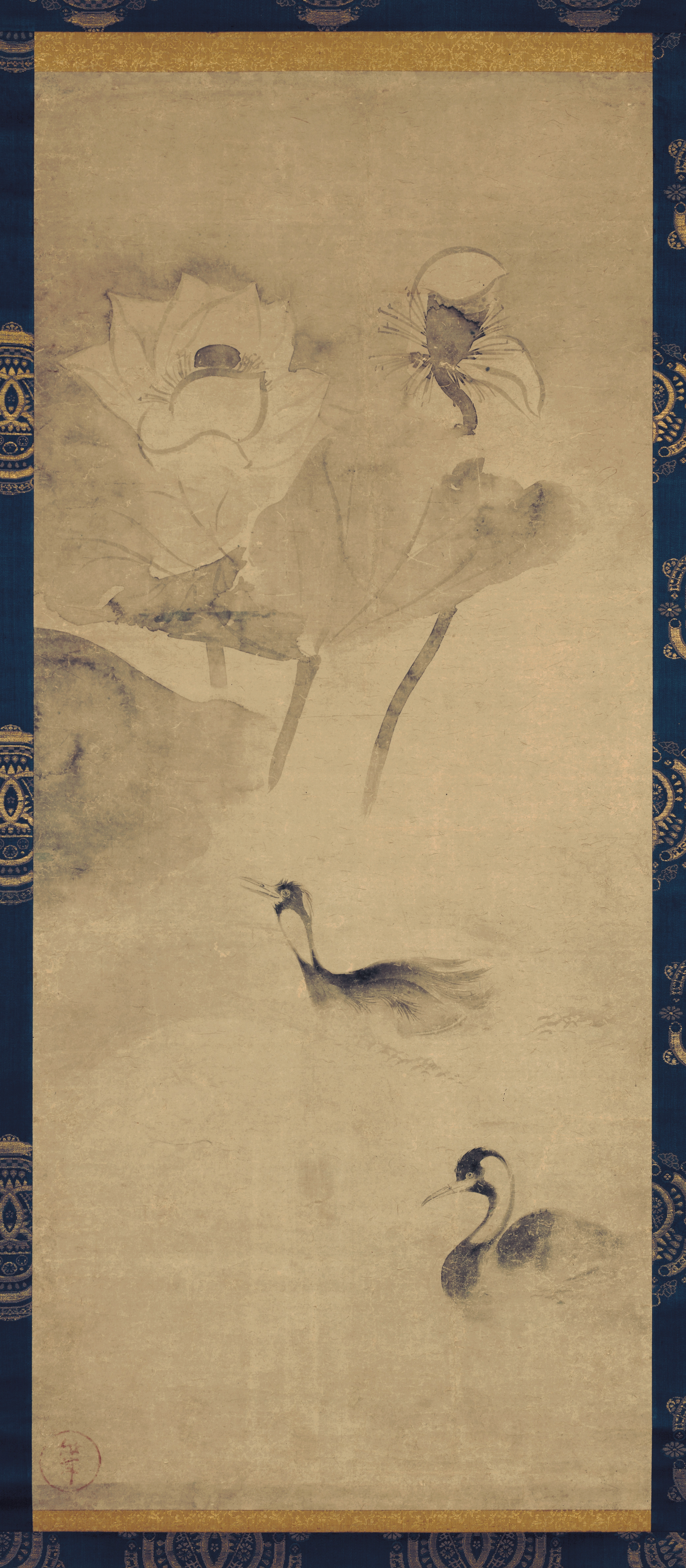 The painting has been designated as National Treasure in the category paintings.